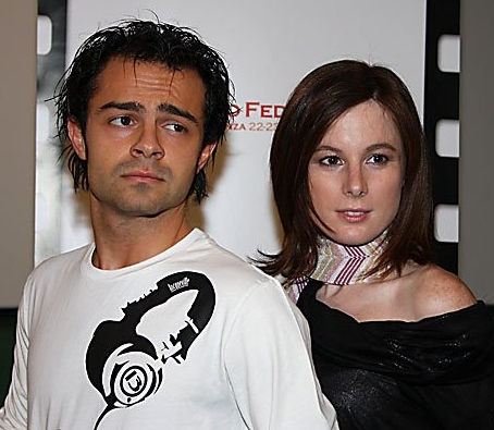 Italian actors Andrea De Rosa and Sarah Maestri.